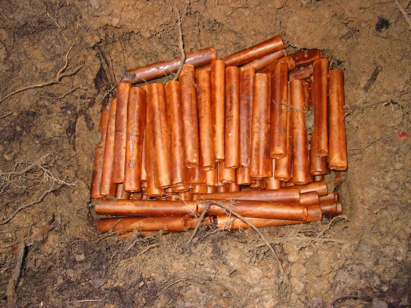 Some of the nitroglycerin dynamite hidden by fugitive Eric Rudolph and recovered by the FBI and other authorities in April 2005.